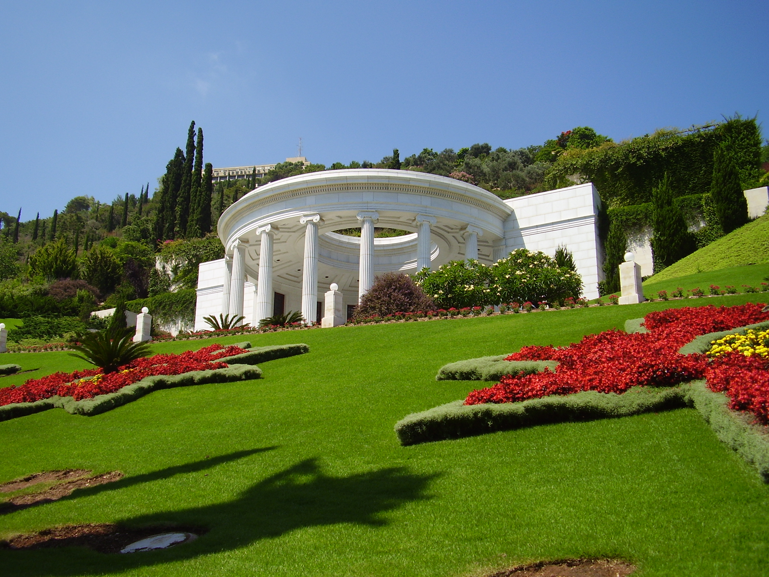 This is the Centre for the Study of the Texts, which is one of the buildings of the Bahá'í World Centre on Mount Carmel, Haifa, Israel.